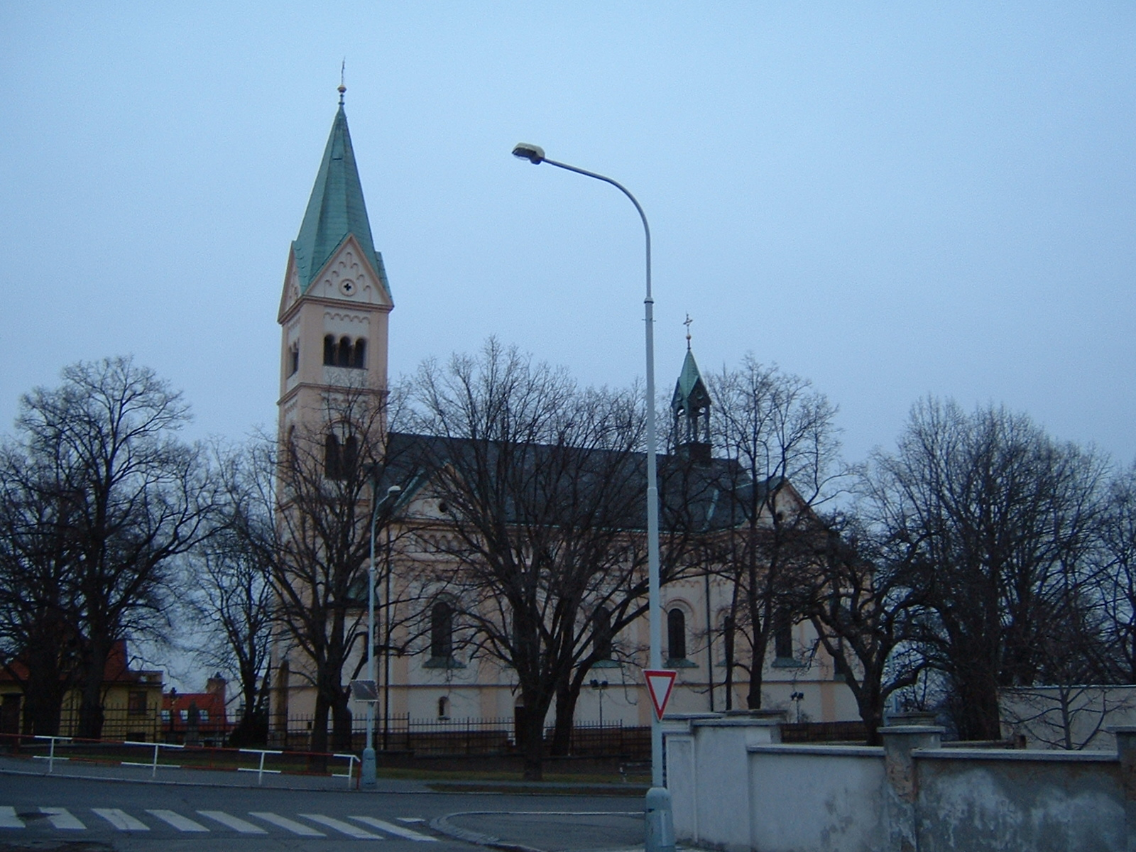 Church of St Norbert in Prague-Střešovice . Licence: Self_GFDL_and_cc-by-sa-2.5